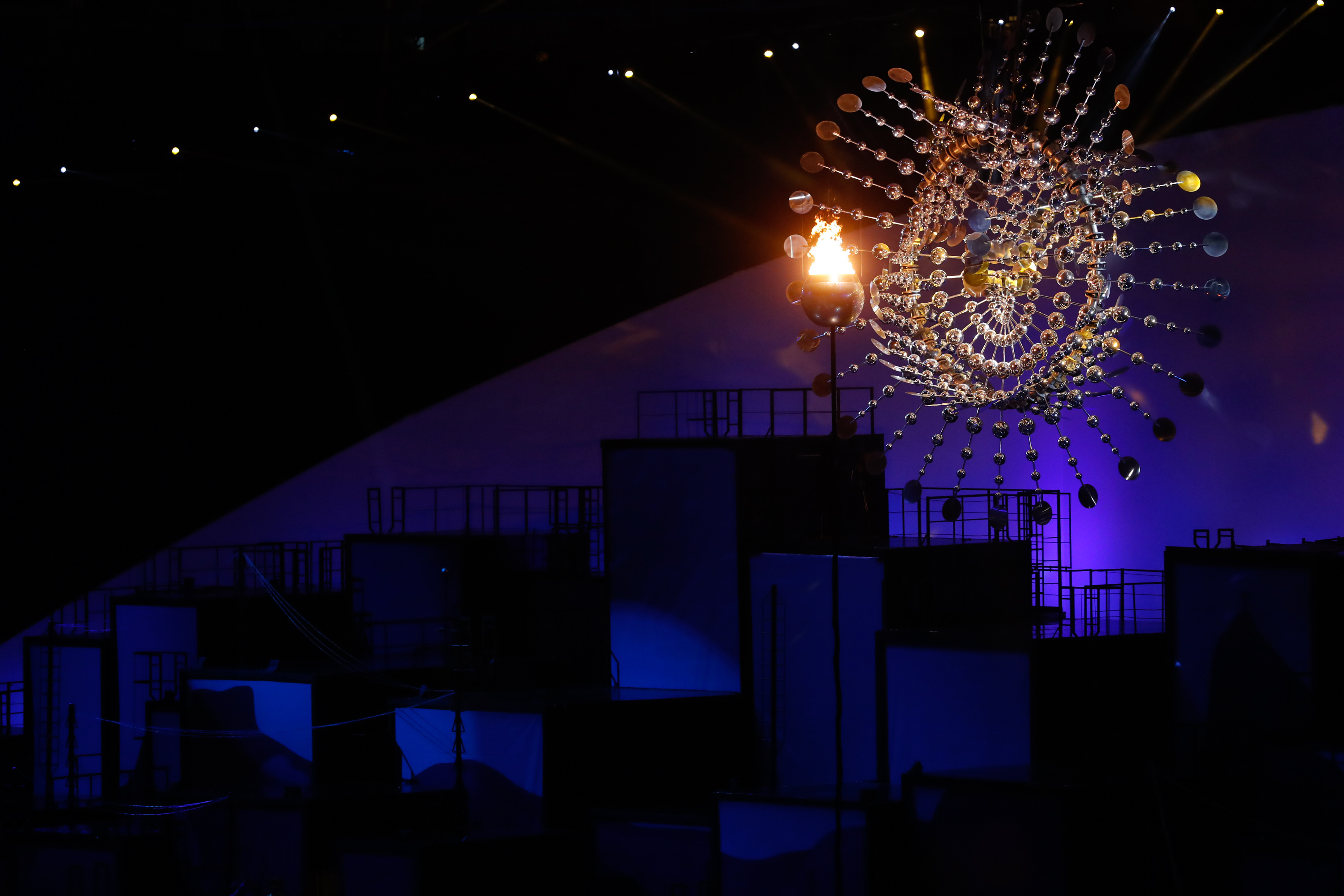 Rio de Janeiro - Cerimônia de abertura dos Jogos Olímpicos Rio 2016 no Estádio do Maracanã. (Fernando Frazão/Agência Brasil)